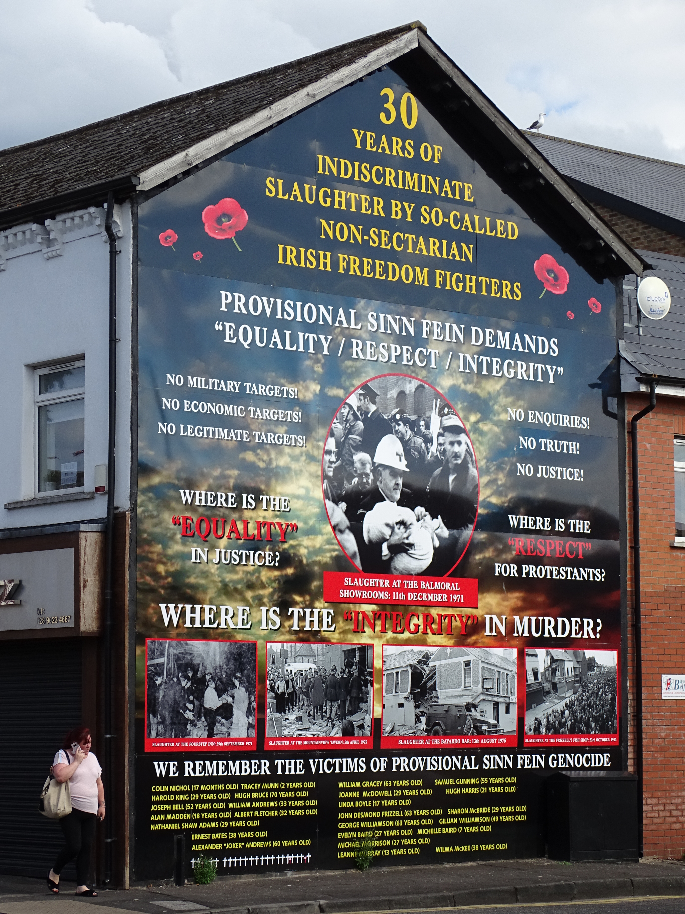 Anti-Sinn Fein Display on Facade - Along Shankill Road - Belfast - Northern Ireland - UK